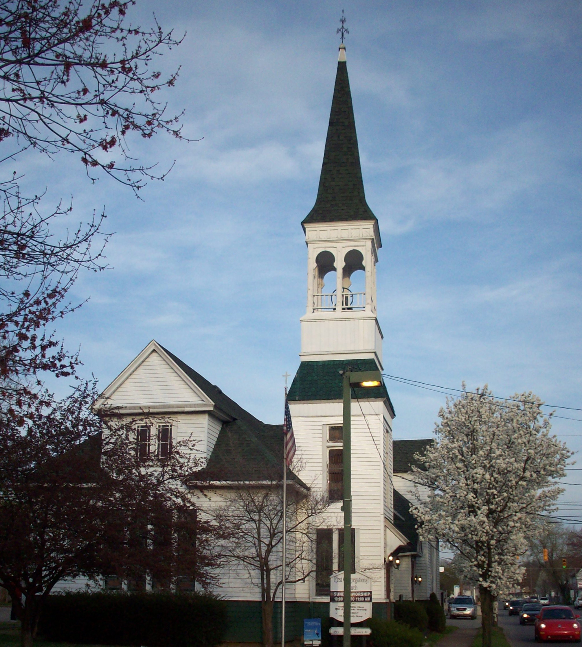 Photo of the First Congregational Church of Ceredo, West Virginia. The photo was taken from across 1st Street West at the intersection with C Street (U.S. Route 60). The building was constructed in 1886 and the church is a member of the National Association of Congregational Christian Churches (NACCC).